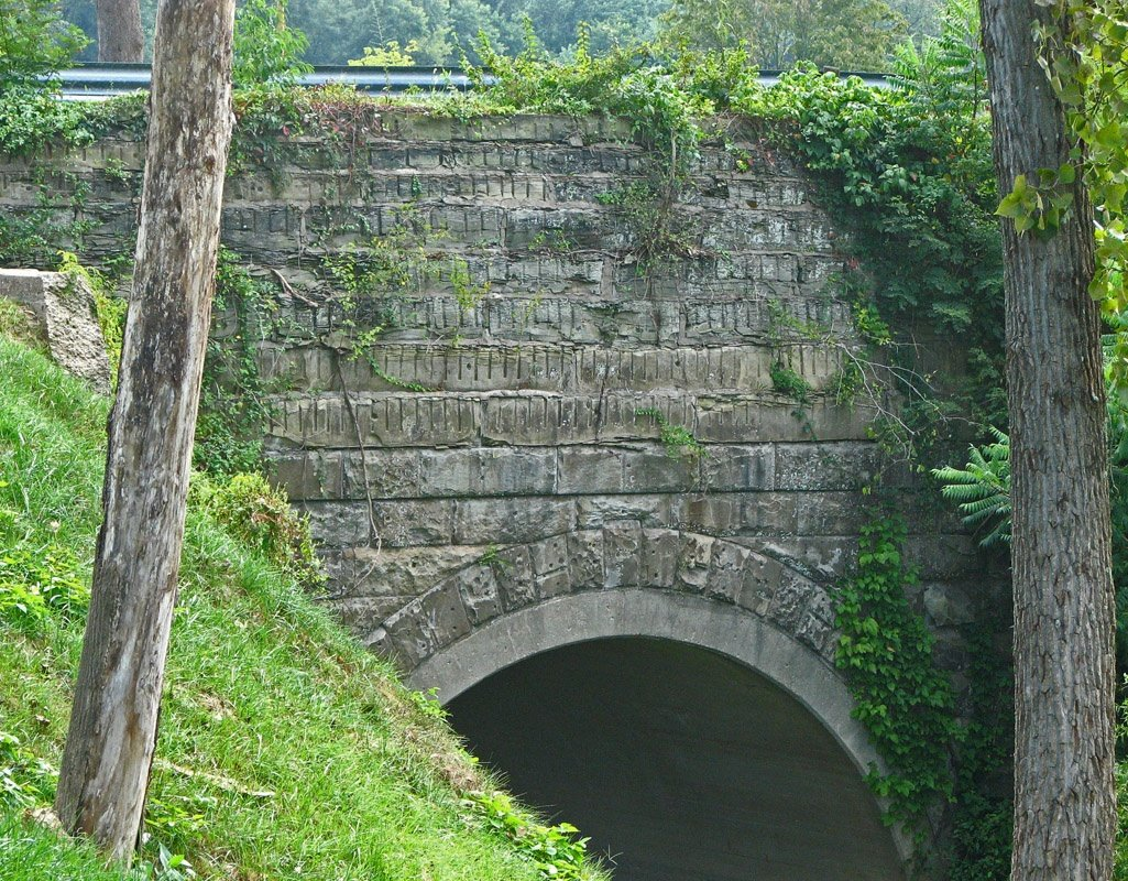 Stone arch bridge that carries Railroad Street over Osborne Run in eastern Hanging Rock, Ohio, United States.